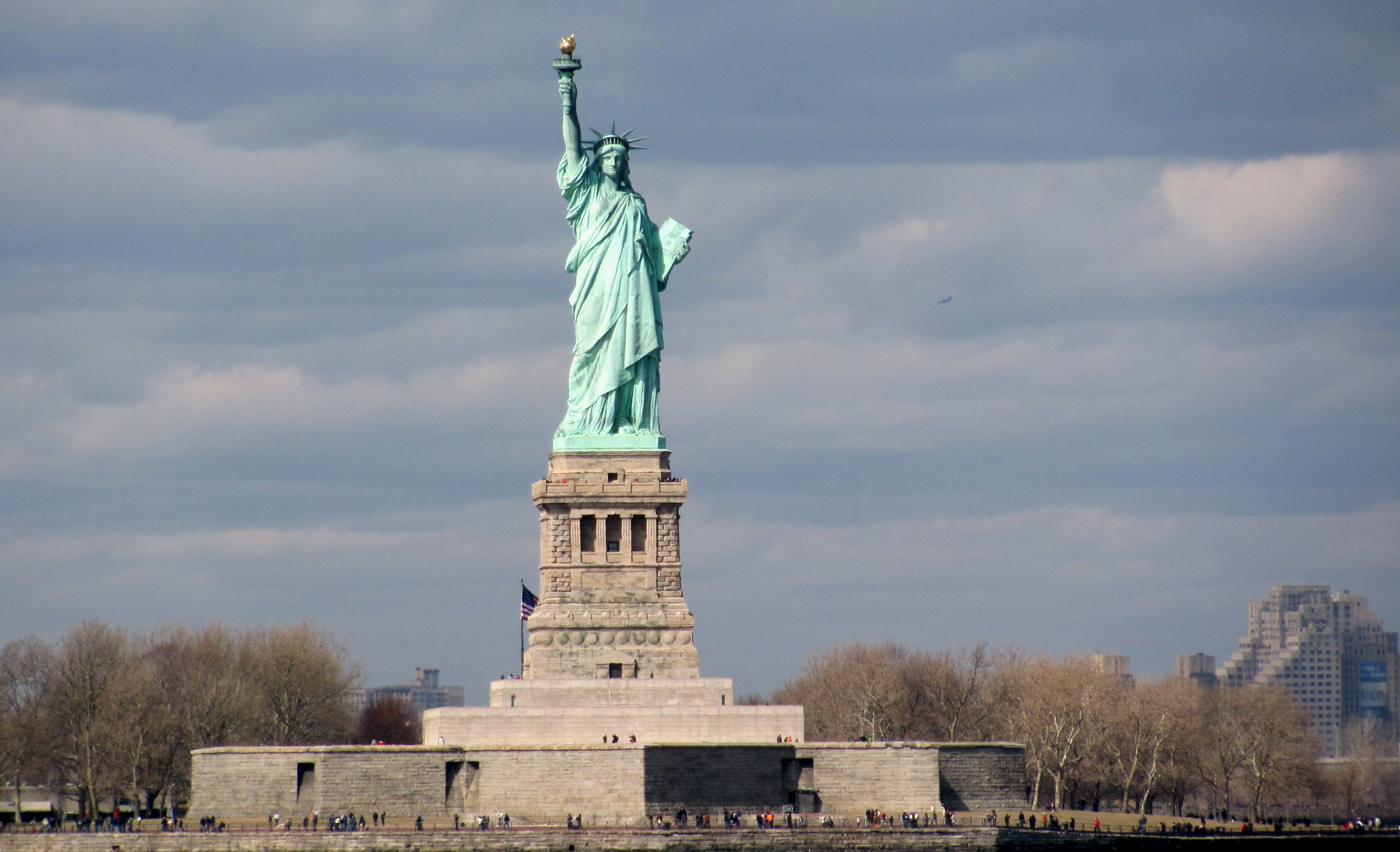 The Statue of Liberty taken from the Staten Island Ferry.